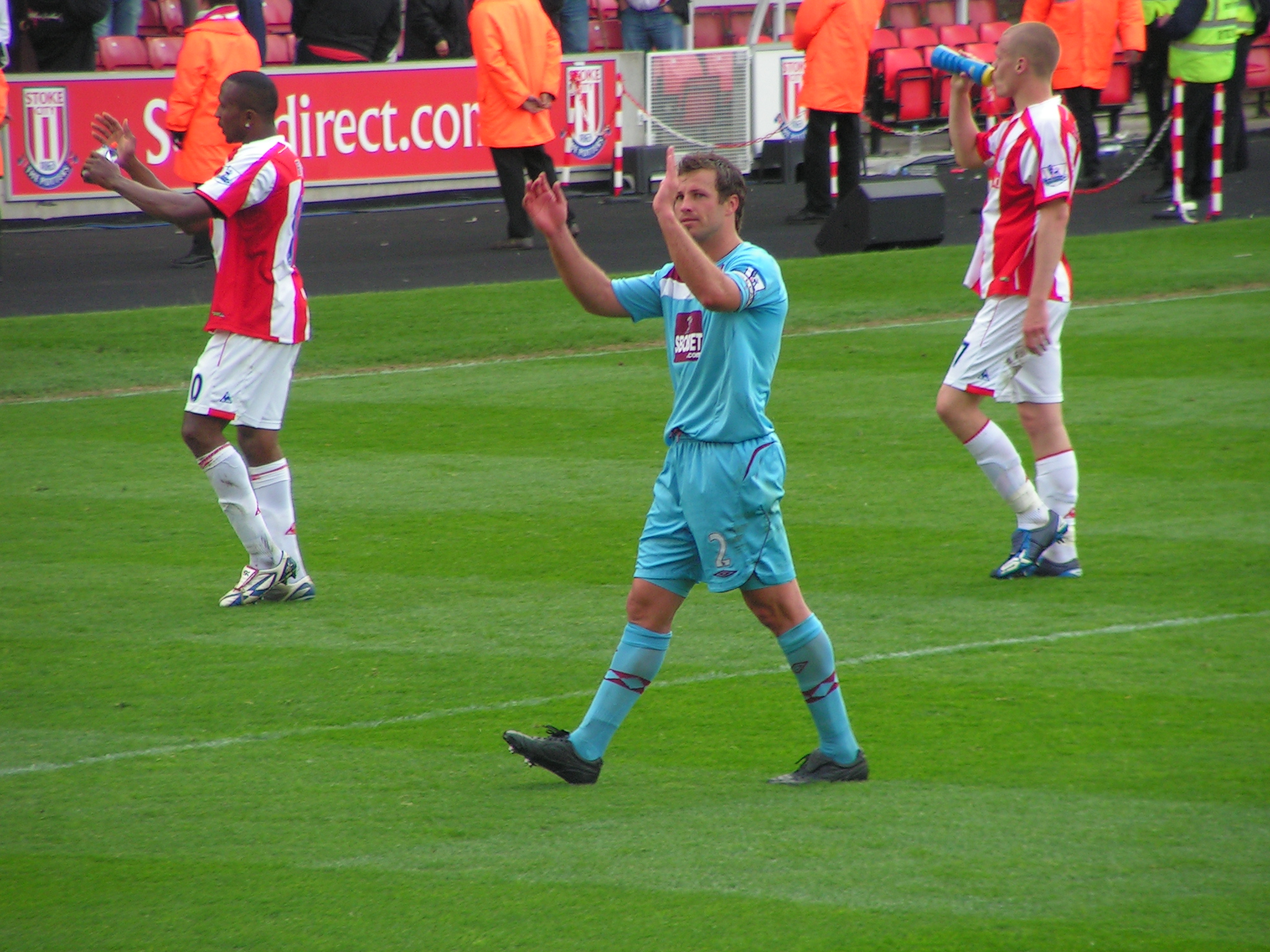 Lucas Neill of West Ham United F.C.